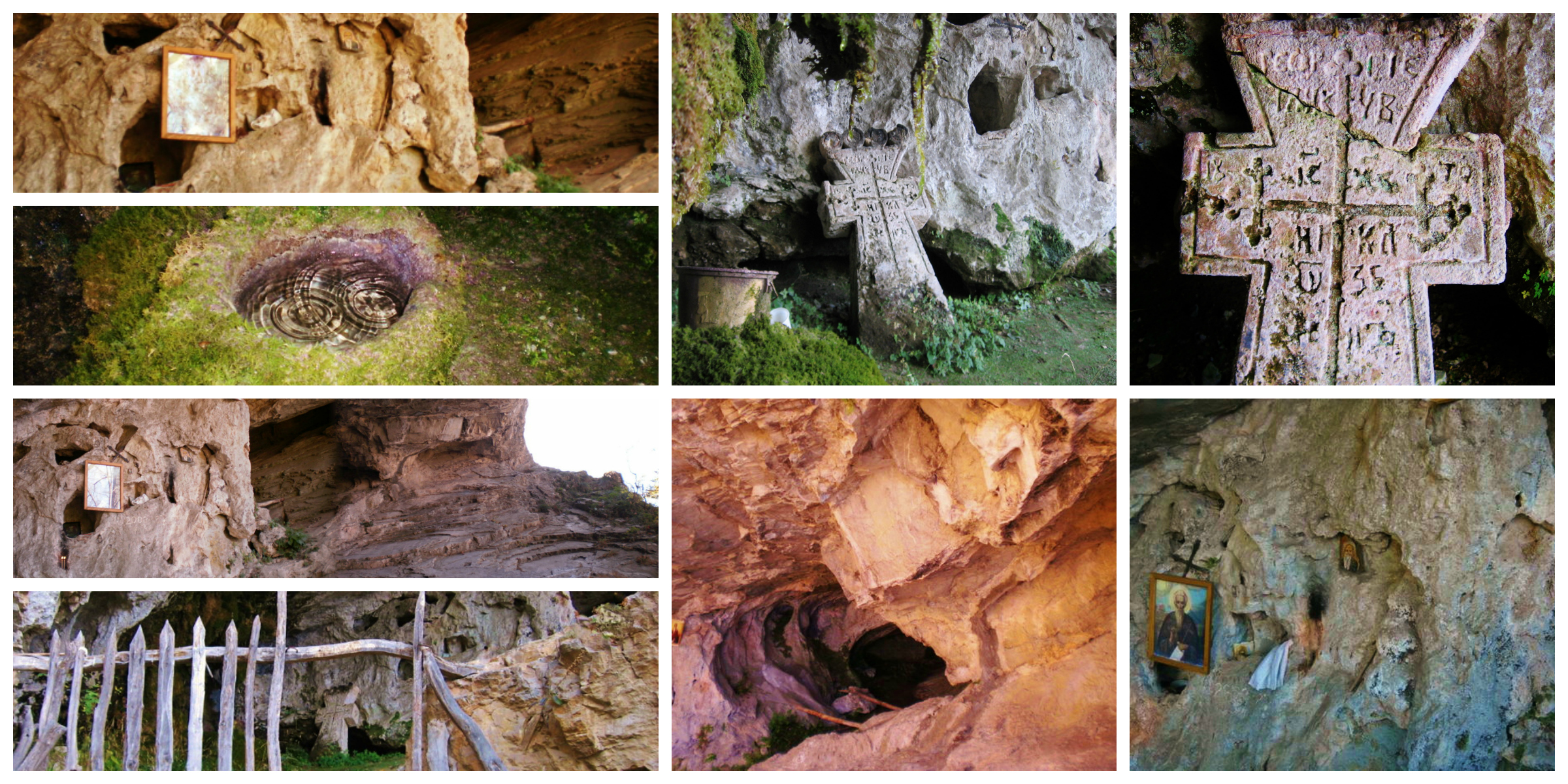 St.Ivan Rilski Cave Gurbino Kyustendil BG